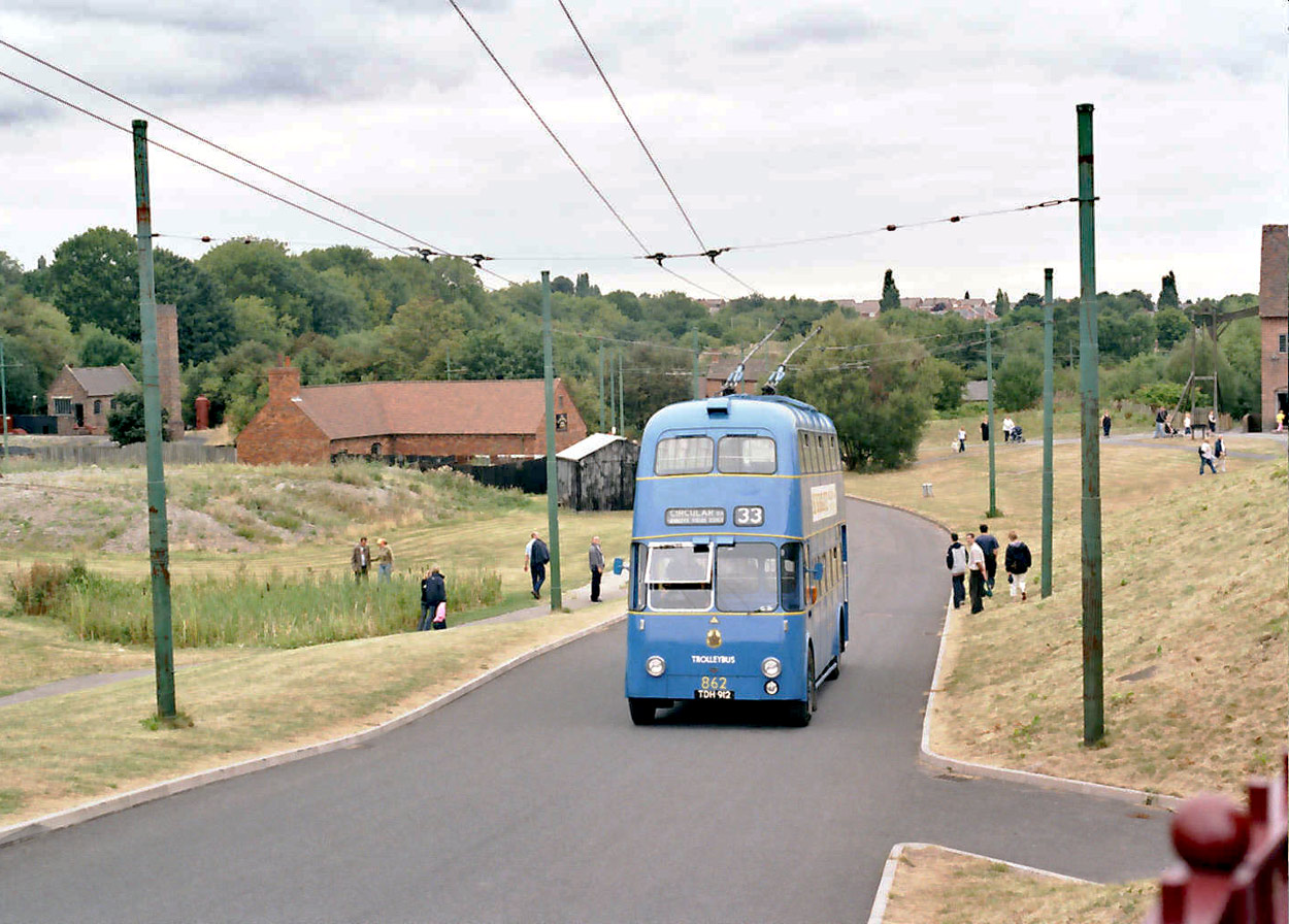 Ex-Walsall trolleybus at the Black Country Living Museum. As this is a large museum covering an extensive area the trolleybuses (and tram) provide a useful service linking various sections of the complex with the main entrance.